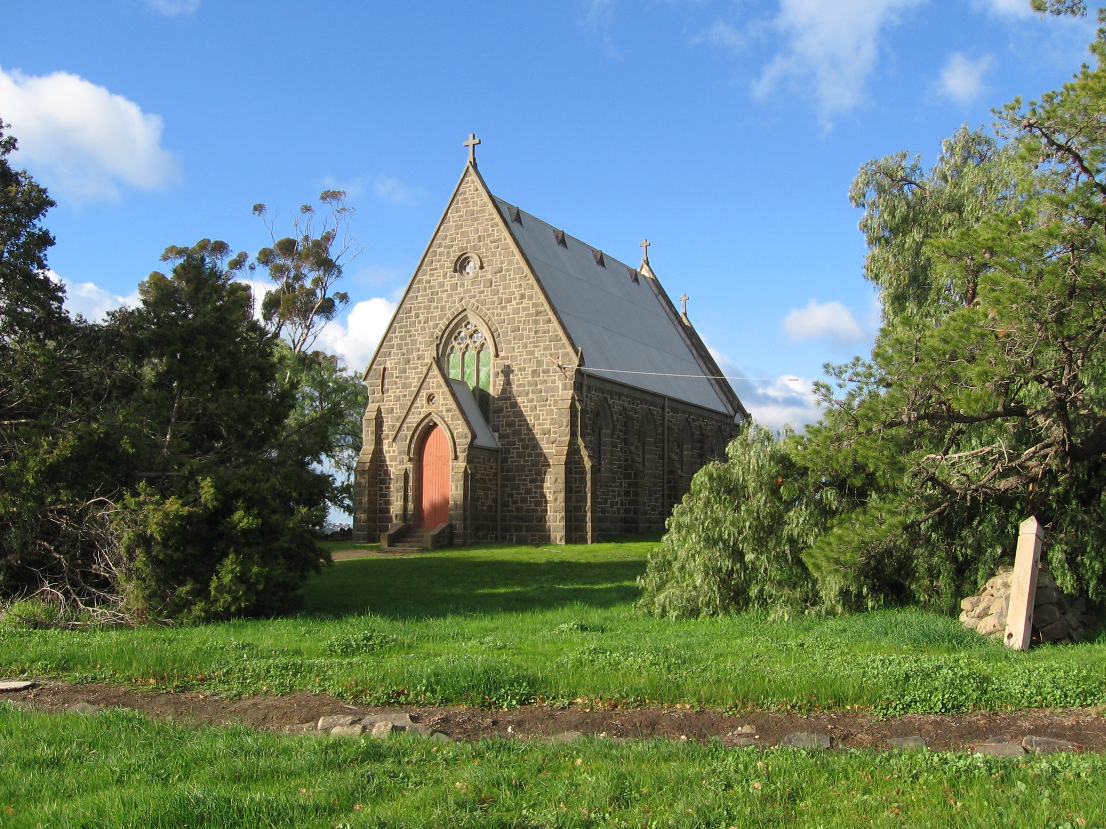 Catholic Church at Redesdale, Victoria, opened 7th November 1874